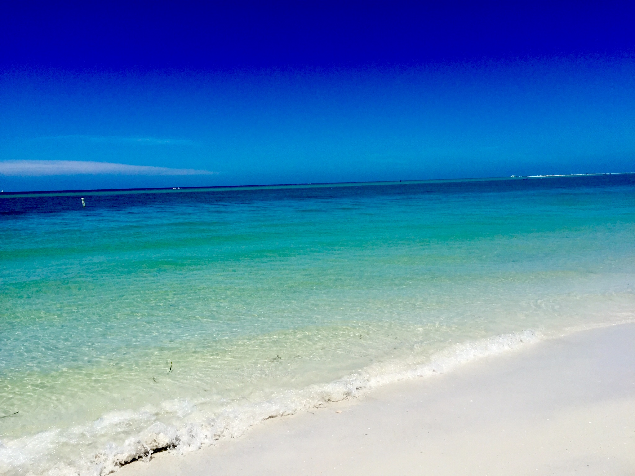 North Beach at Ft. De Soto Park